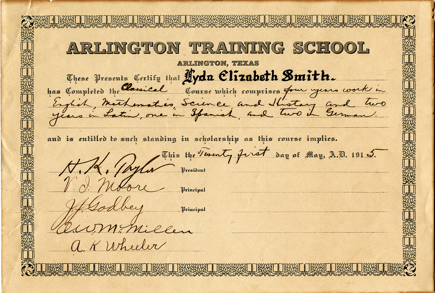 Arlington Training School diploma certificate for Lyda Elizabeth Smith for completion of Classical Course.